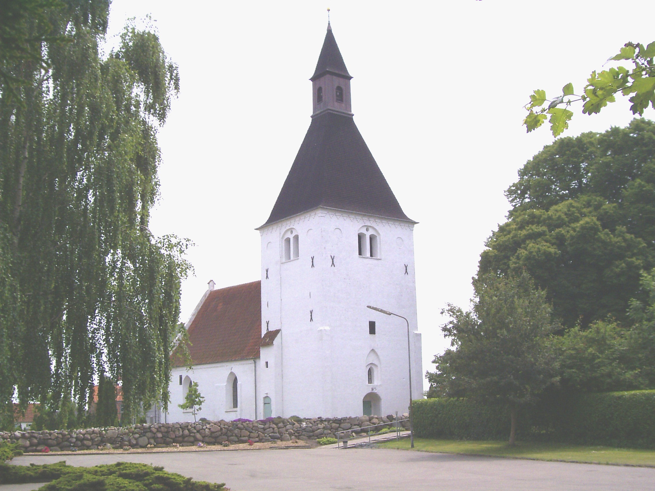 Church in Slemminge, Community of Sakskøbing, diocese of Lolland-Falster. Date: 2006.07.12 Author: Sir48